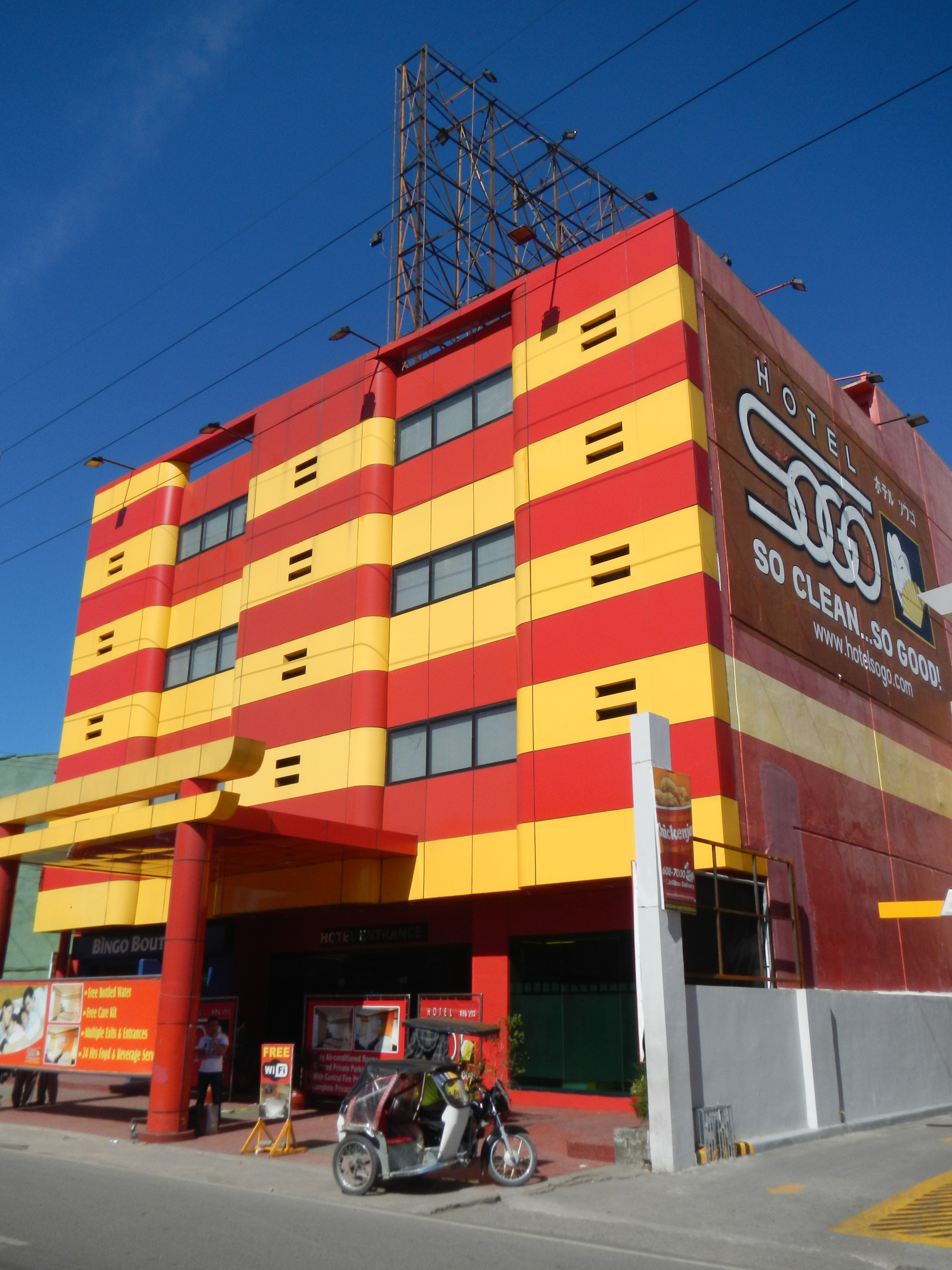 Hotel Sogo Hotel chain in the Philippines AH26, San Juan Accfa, Cabanatuan City, Nueva Ecija Maharlika or Pan-Philippine Hi-Way, Cagayan Valley Road.